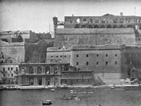 Photograph of British Beagle class destroyer HMS Basilisk in Valletta harbour, Malta.